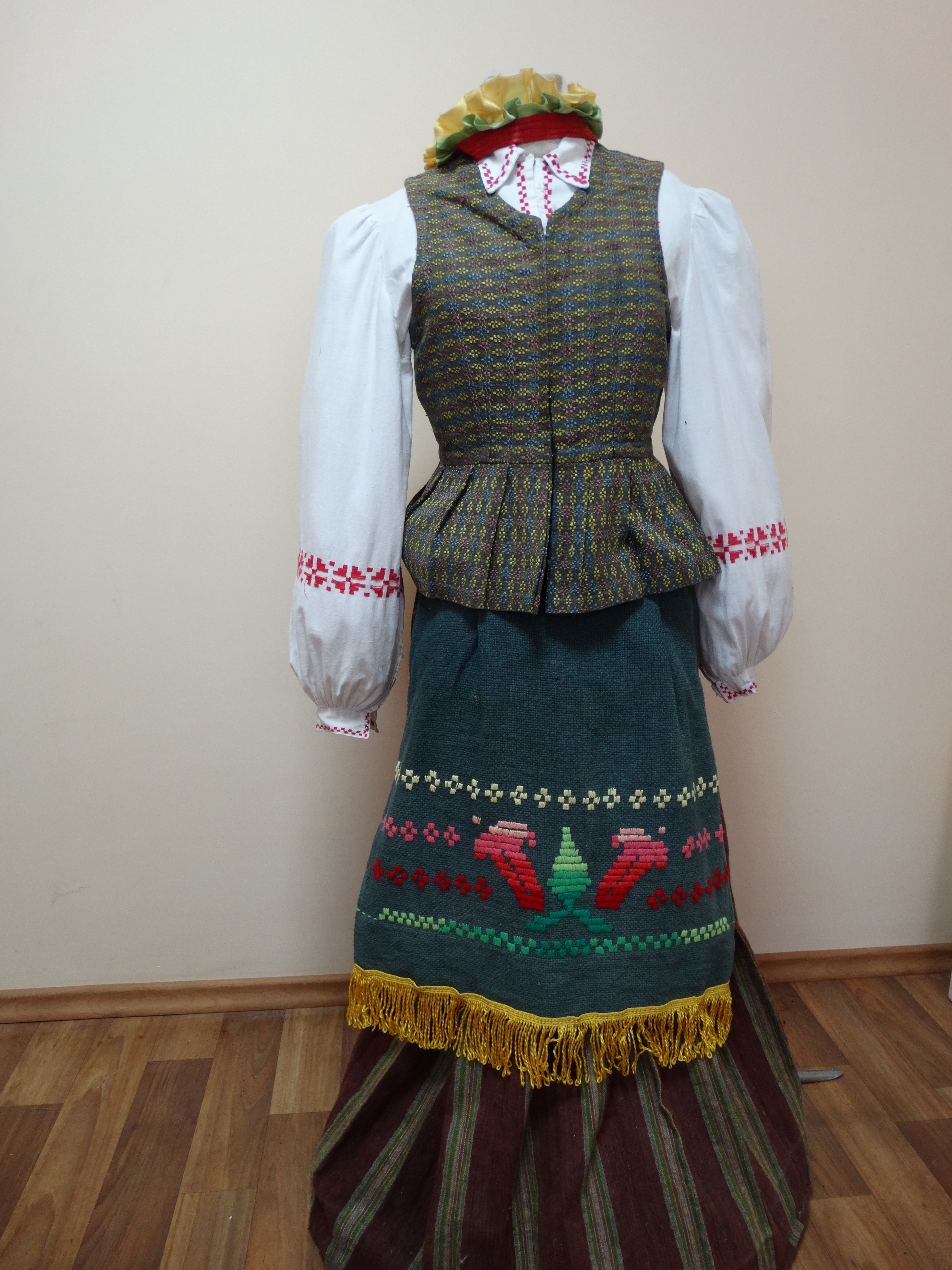 National costume in Betygala, Lithuania